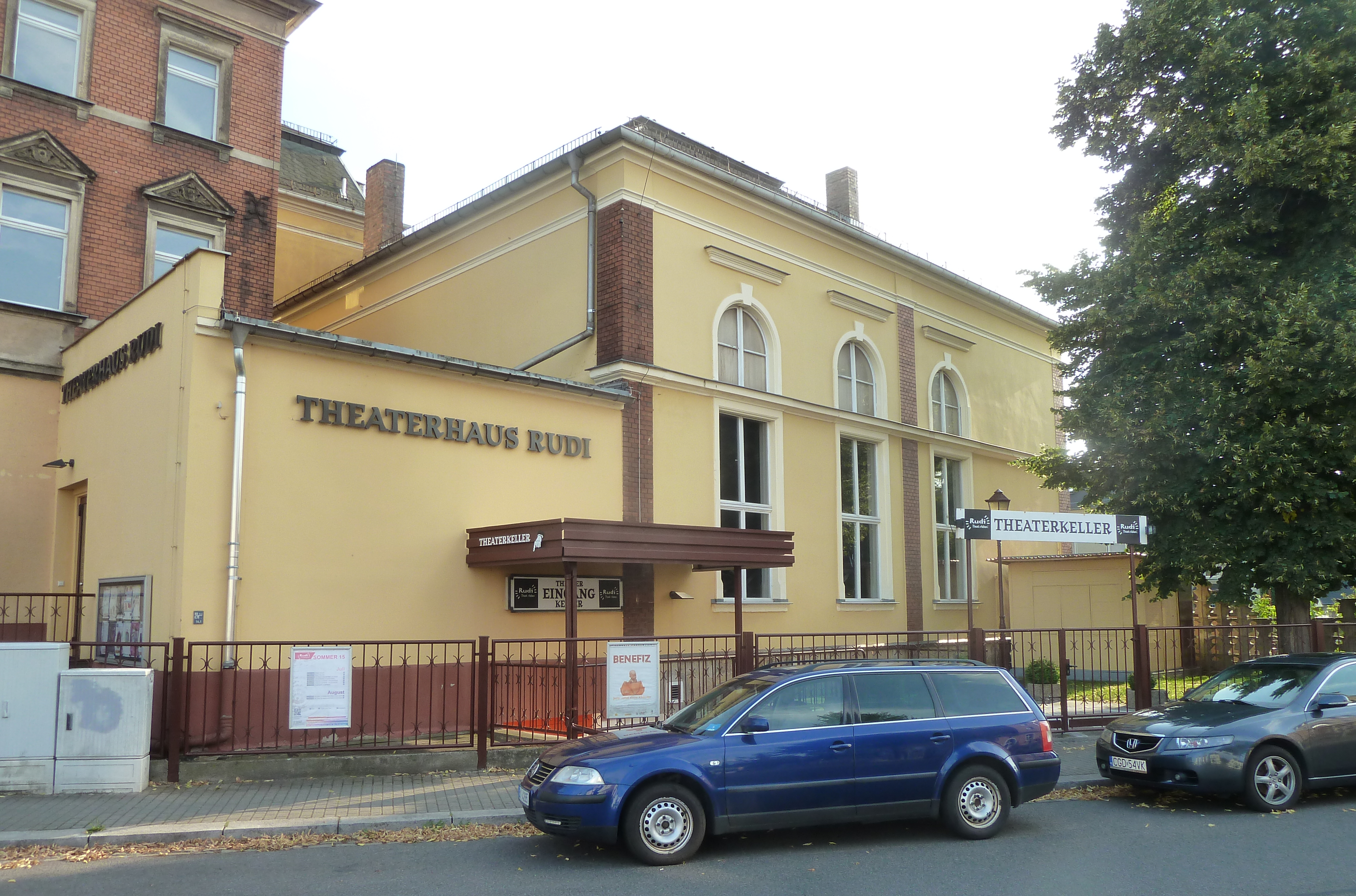 Theaterhaus Rudi in Dresden as seen from Rankestraße